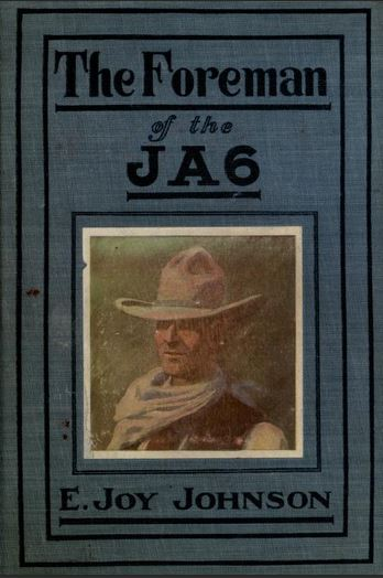 The foreman of the JA6; a novel by Johnson, E. Joy Publication date 1911 Publisher New York : Wyoming Publishing Co. Collection cdl; americana Digitizing sponsor MSN Contributor University of California Libraries Language English Call number srlf_ucla:LAGE-1833181 Camera 5D Collection-library srlf_ucla Copyright-evidence Evidence reported by alyson-wieczorek for item foremanofja6nove00johniala on February 26, 2007: no visible notice of copyright; stated date is 1911. Copyright-evidence-date 20070226203007 Copyright-evidence-operator alyson-wieczorek Copyright-region US Identifier foremanofja6nove00johniala Identifier-ark ark:/13960/t8v981j3x Identifier-bib LAGE-1833181 Lcamid 1020707274 Openlibrary_edition OL7067236M Openlibrary_work OL7717784W Pages 310 Possible copyright status NOT_IN_COPYRIGHT Full catalog record MARCXML